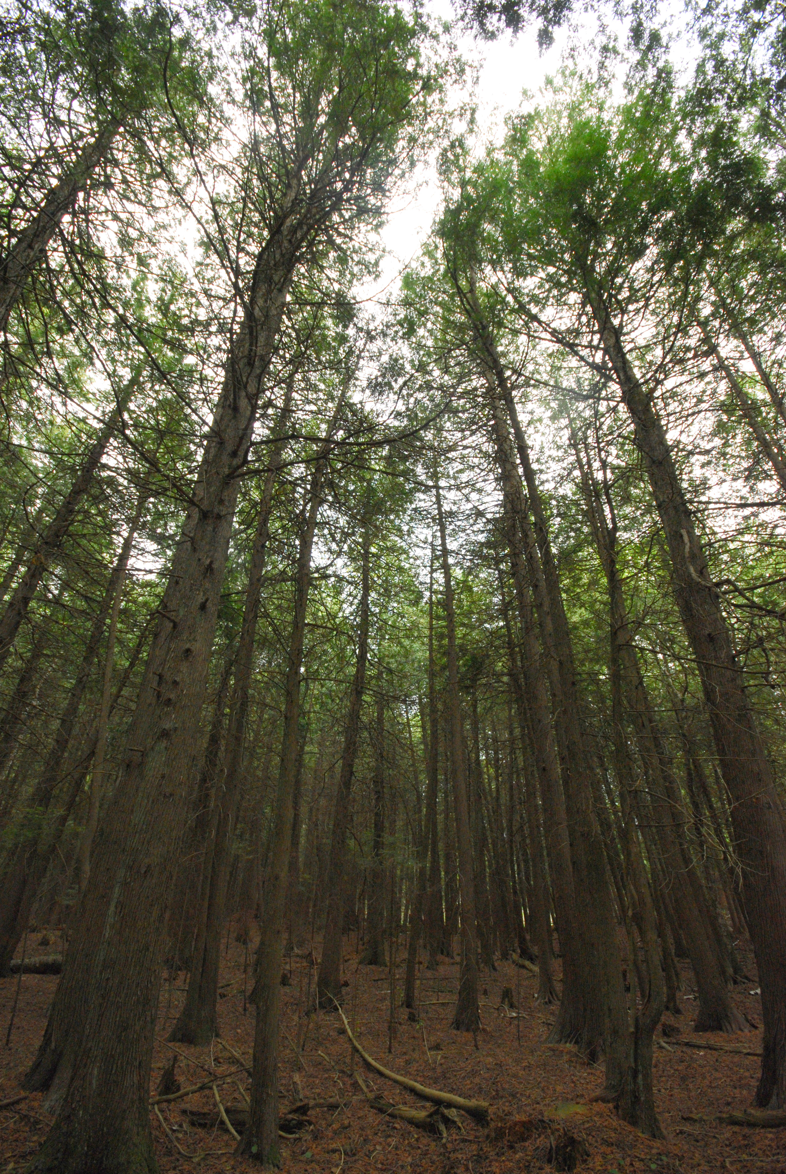 Thuja occidentalis forest, Wisconsin State Natural Area #13, Peninsula State Park, Door County, Wisconsin